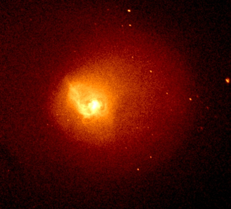 Chandra X-ray image of the core of the Centaurus cluster (inner 6.7 arcmin), this image was made from 200ks of combined data, and smoothed with a Gaussian of 1 arcsec. It shows the X-ray emission in the 0.4 to 7 keV band and has been exposure-map corrected.